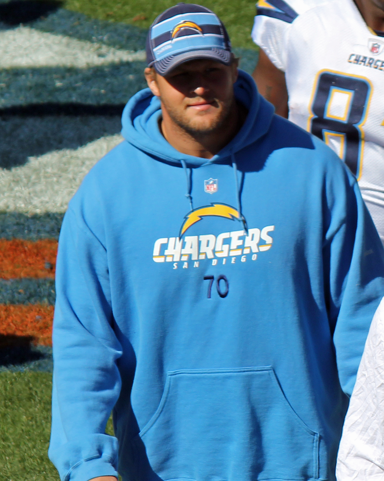 Stephen Schilling, a player on the National Football League.